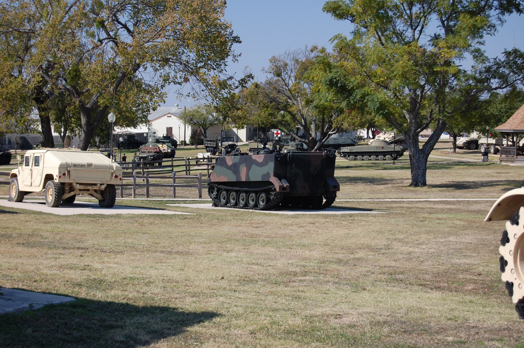 Old Armored Carrier + Humvee